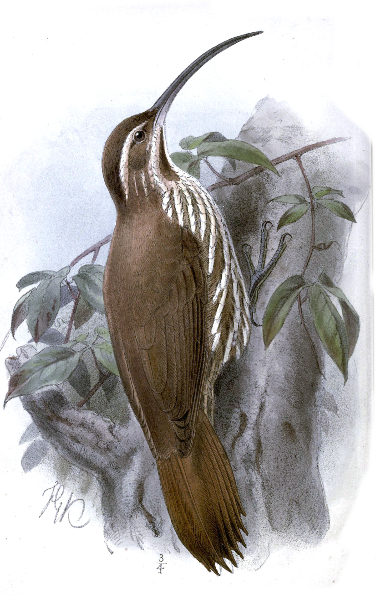 Drymornis bridgesii